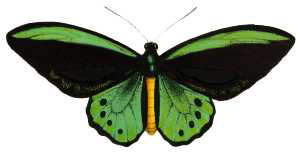 The Richmond Birdwing Ornithoptera richmondia is a birdwing species endemic to Australia. It is the second smallest of the birdwing species, the smallest being Ornithoptera meridionalis.